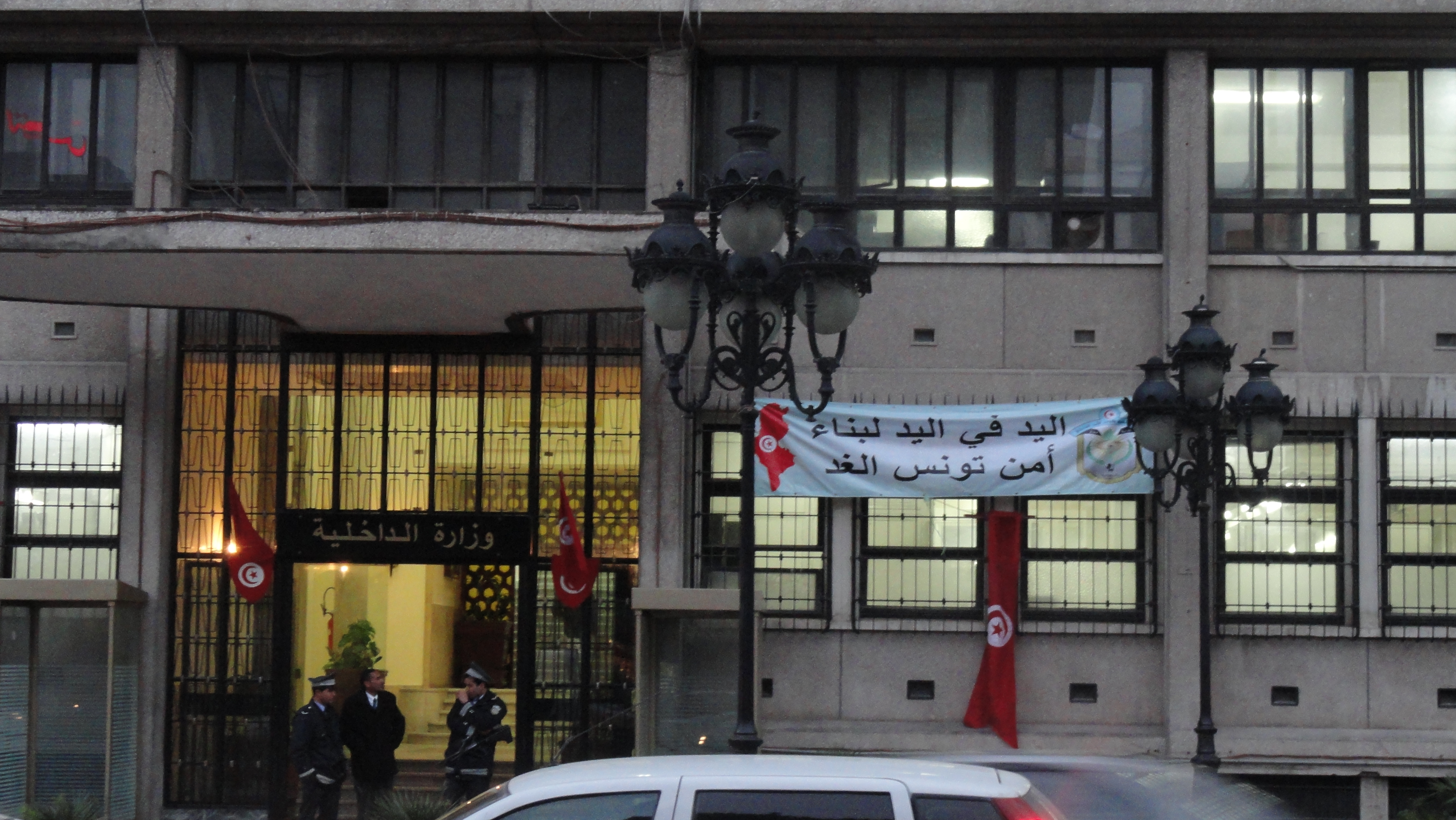 Interior ministry building in Tunis.